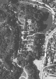 Akita City 1967